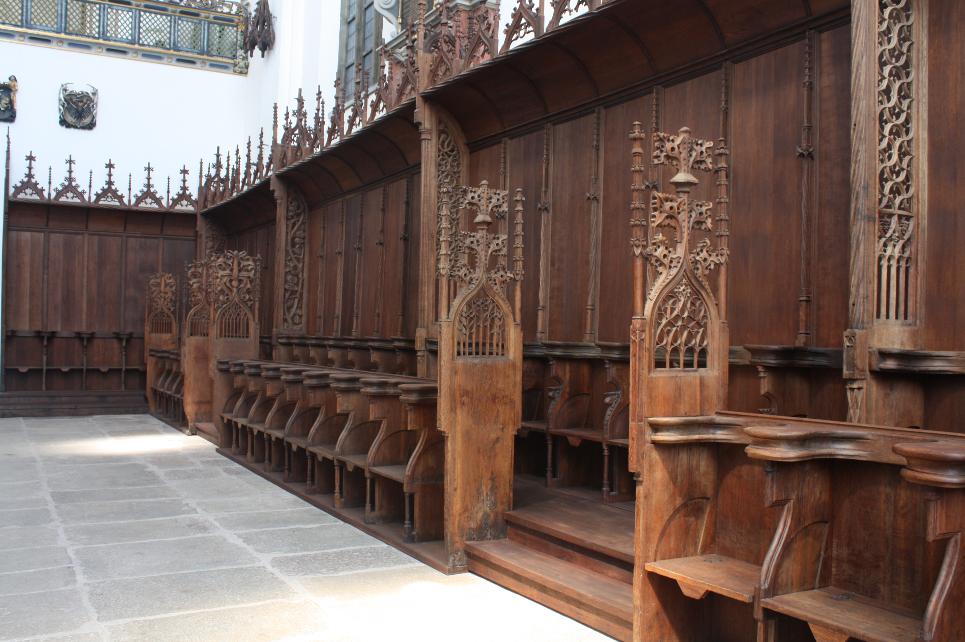 Gdańsk, Church of Saint Trinity